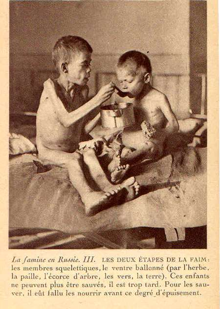 A postcard photograph (rotogravure) of two starving boys: one feeds the other. The boys are in an advanced stage of a famine related malnutrition. Their bellies are edematous due to ascites and liver failure resulting from severely inadequate protein intake. Their bodies have catabolized a large amount of skeletal muscle to compensate for the decreased protein intake, resulting in skeletal limbs. This is postcard number 3 of a set published by Rotogravure SA, Geneva, and sold by in 1922 to raise funds for the Ukrainian famine (number VIII of the set displayed bears the date 28 February 1922). The photographs were taken by Fridtjof Nansen and most likely published earlier as well in 1922 in his pamphlets and addresses for aid to the Russians.[1][2]